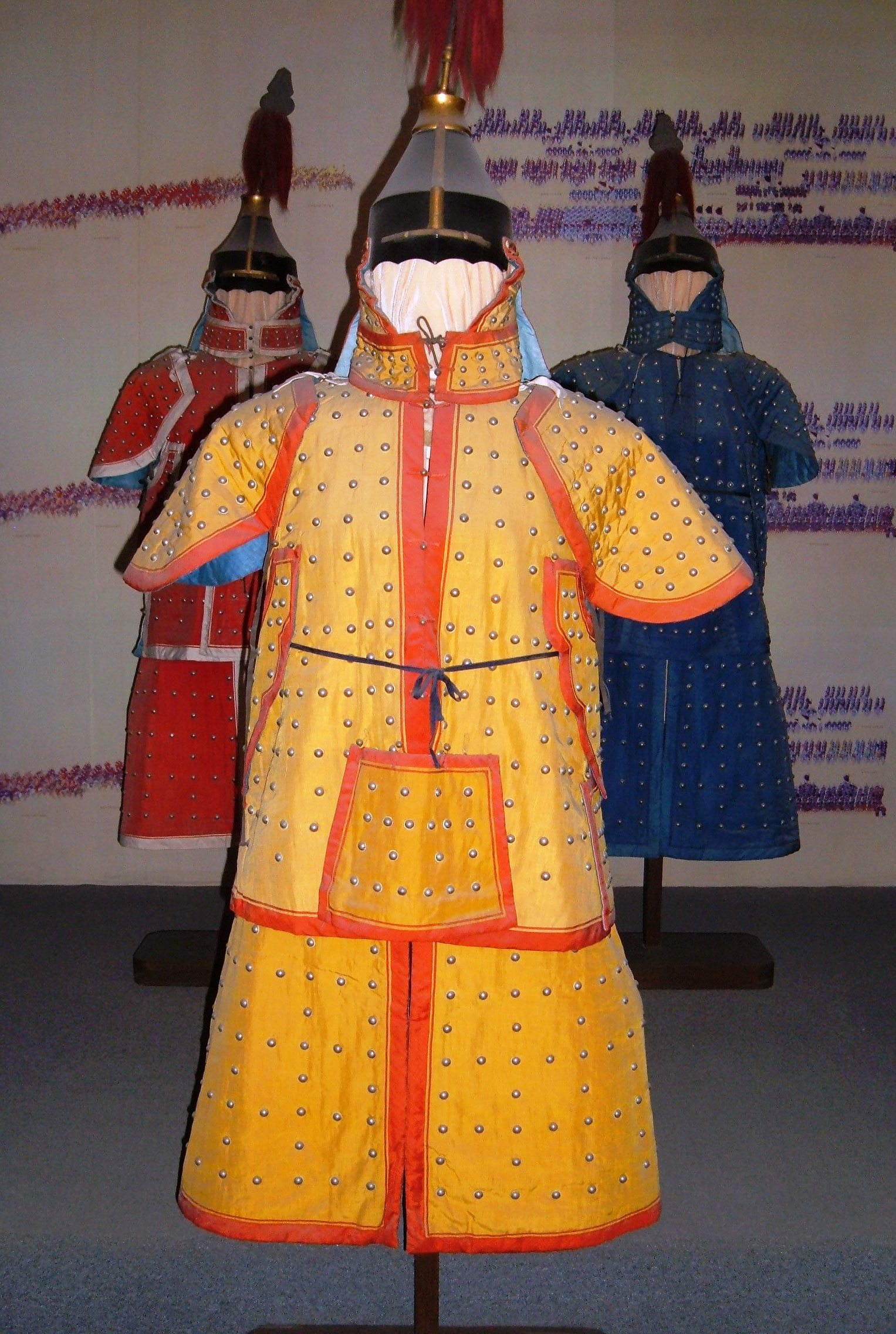 Qing Dynasty era uniforms of three elite units, yellow indicatingg the most prestigious one, on display in the Forbidden City, Beijing, PRC.